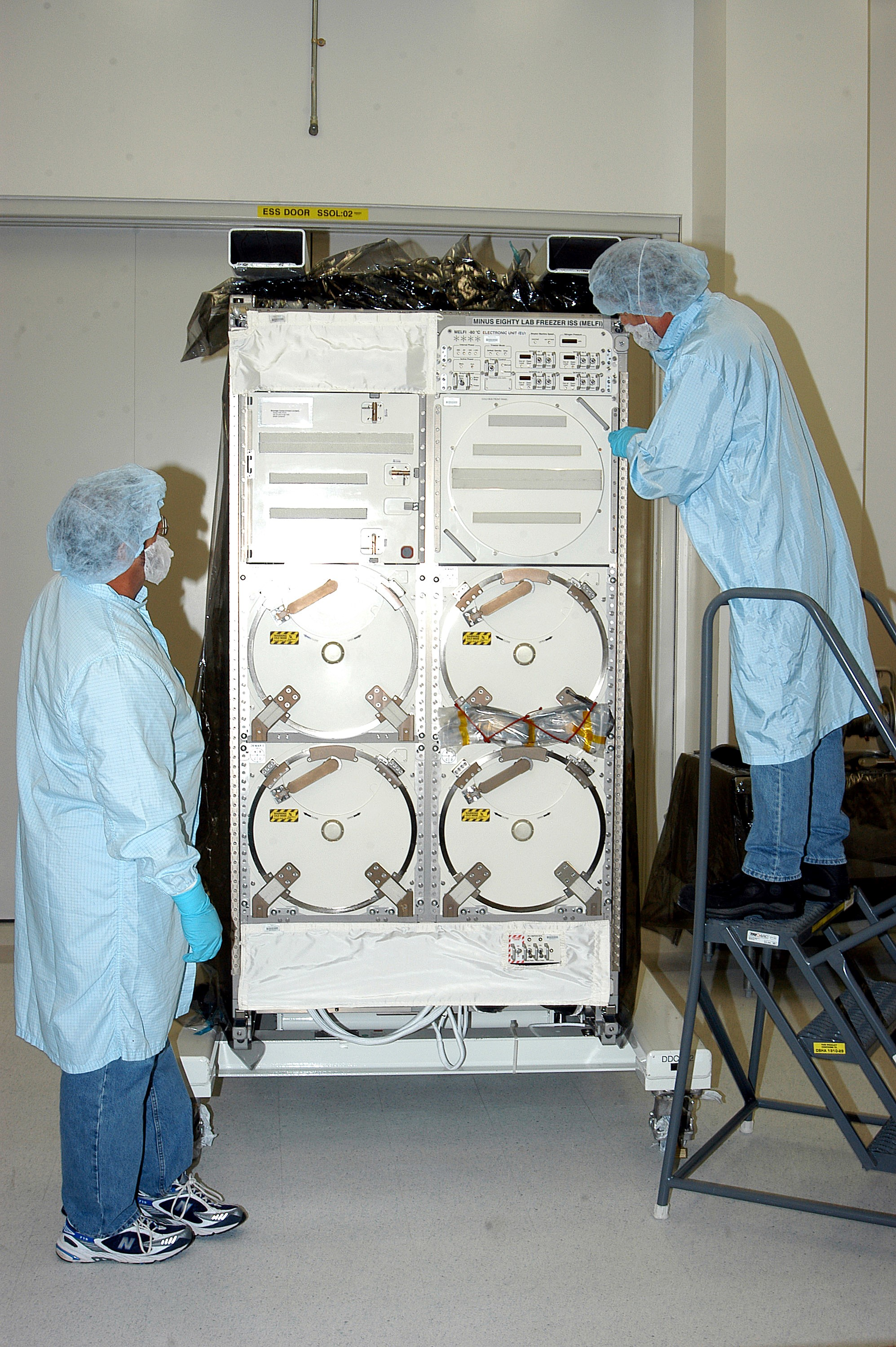 Minus Eighty Degree Laboratory Freezer for the International Space Station (MELFI) After removing its cover, technicians look over the Minus Eighty Lab Freezer for ISS (MELFI), provided as Laboratory Support Equipment by the European Space Agency for the International Space Station. The lab will provide cooling and storage for reagents, samples and perishable materials in four insulated containers called dewars with independently selectable temperatures of -80°C, -26°C, and +4°C. It also will be used to transport samples to and from the station. The MELFI is planned for launch on the ULF-1 mission.